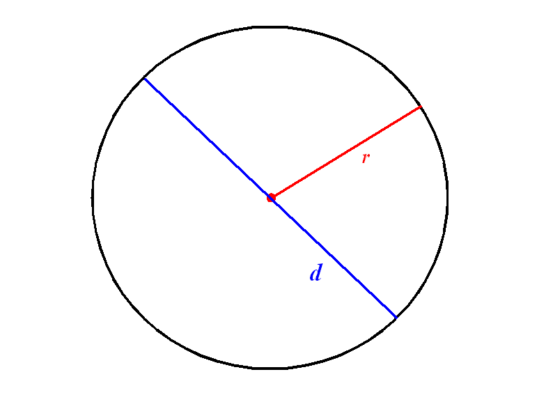 In drawing the radius and diameter of a circle is shown